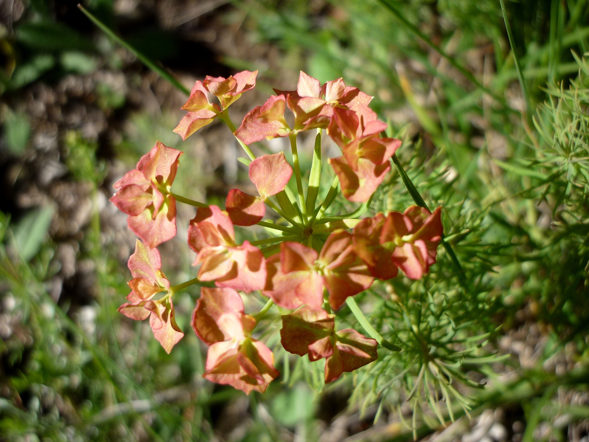 Euphorbia cyparissias. Near Roca de la Pena, in l'Alzina d'Alinyà (Alt Urgell-Catalunya). To 1.780 m. altitude